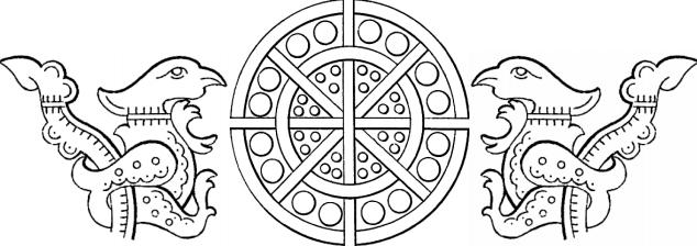 Dharmachakra